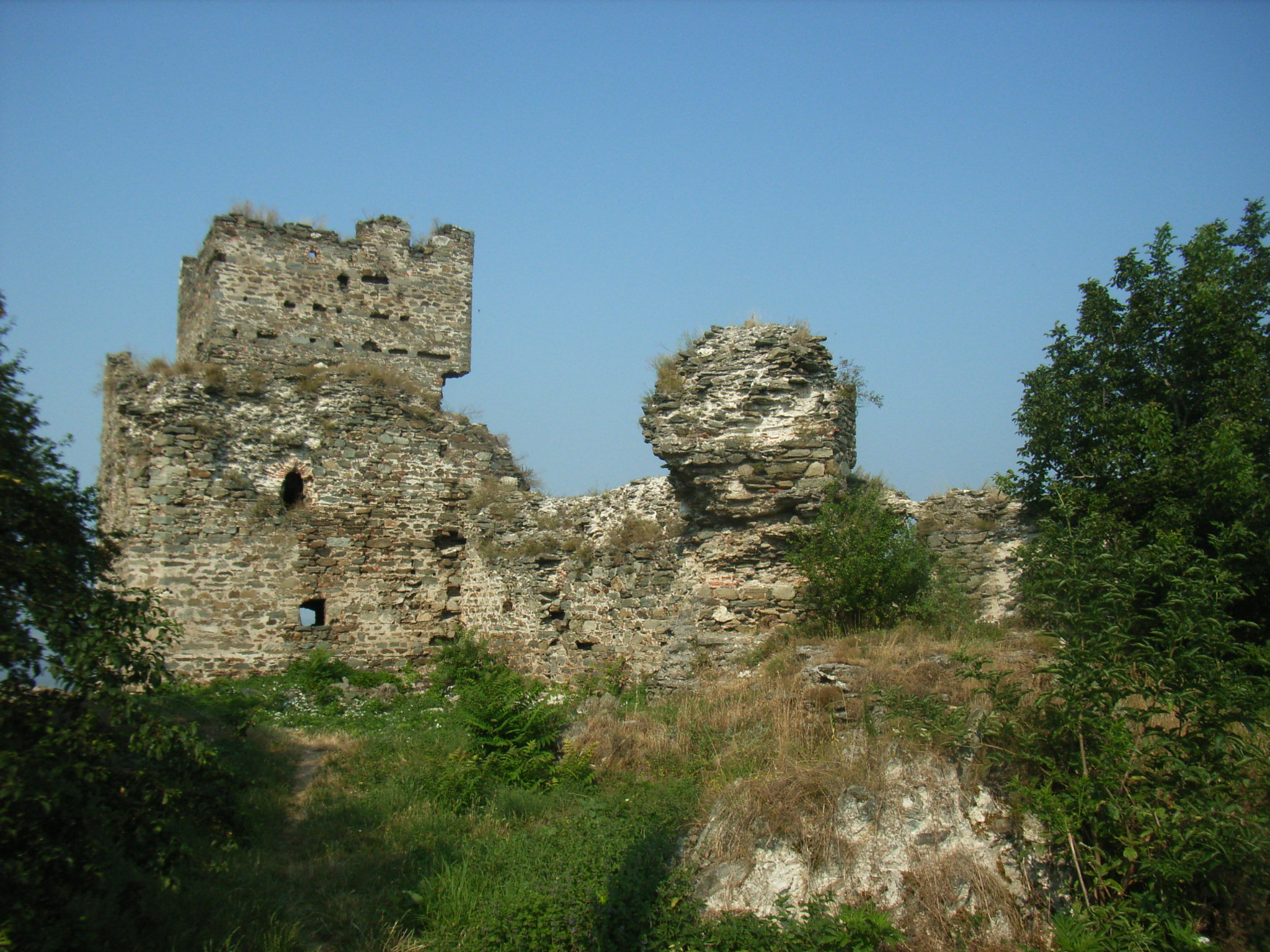 The fortress of Ram, Veliko Gradište municipality, Serbia.